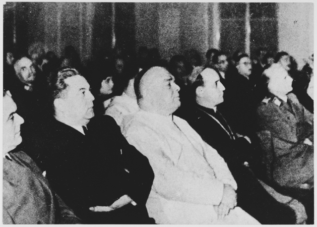 Croatian political and religious leaders at ceremonial gathering.